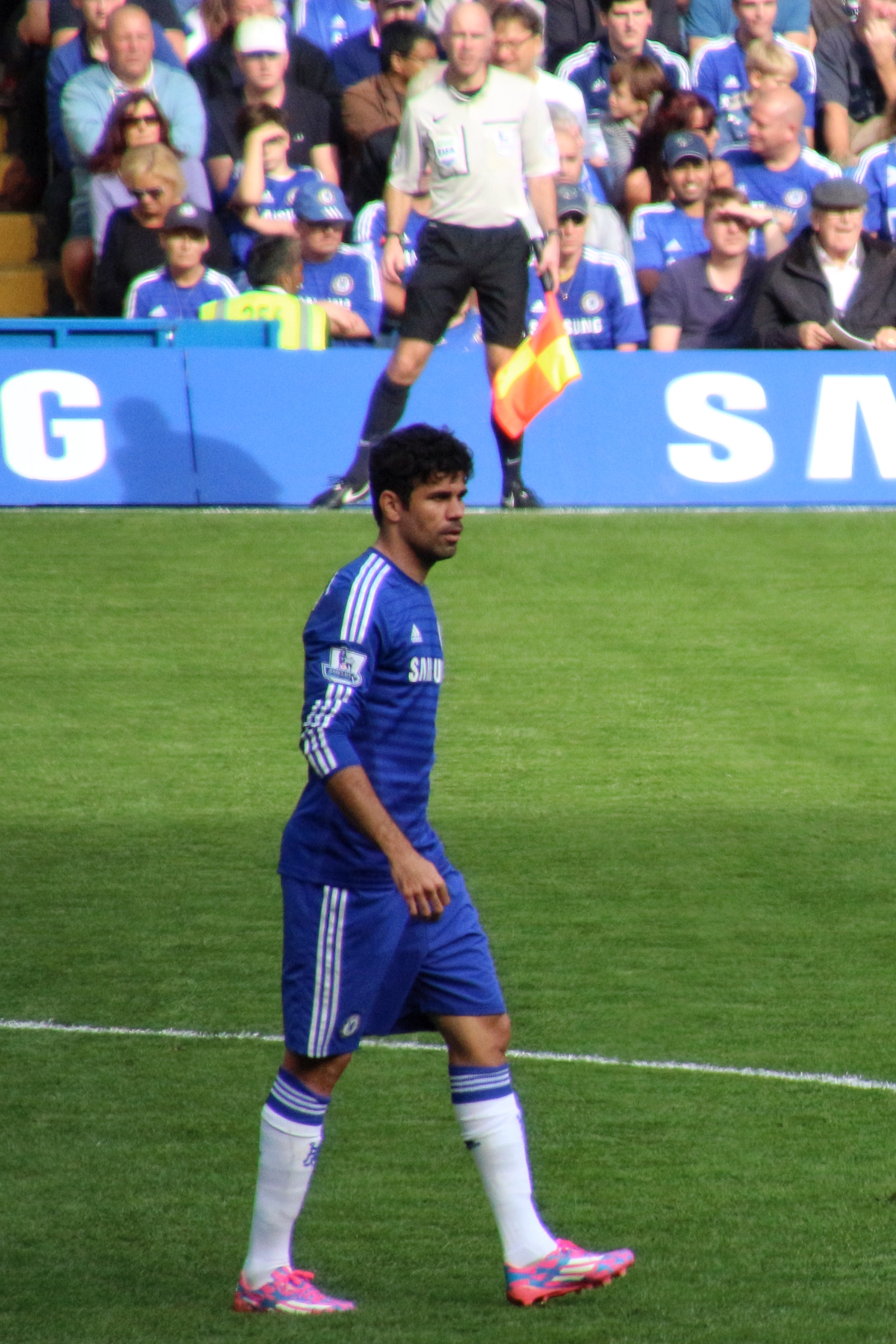 Premier League match between Chelsea and Arsenal at Stamford Bridge on 5 October 2014.